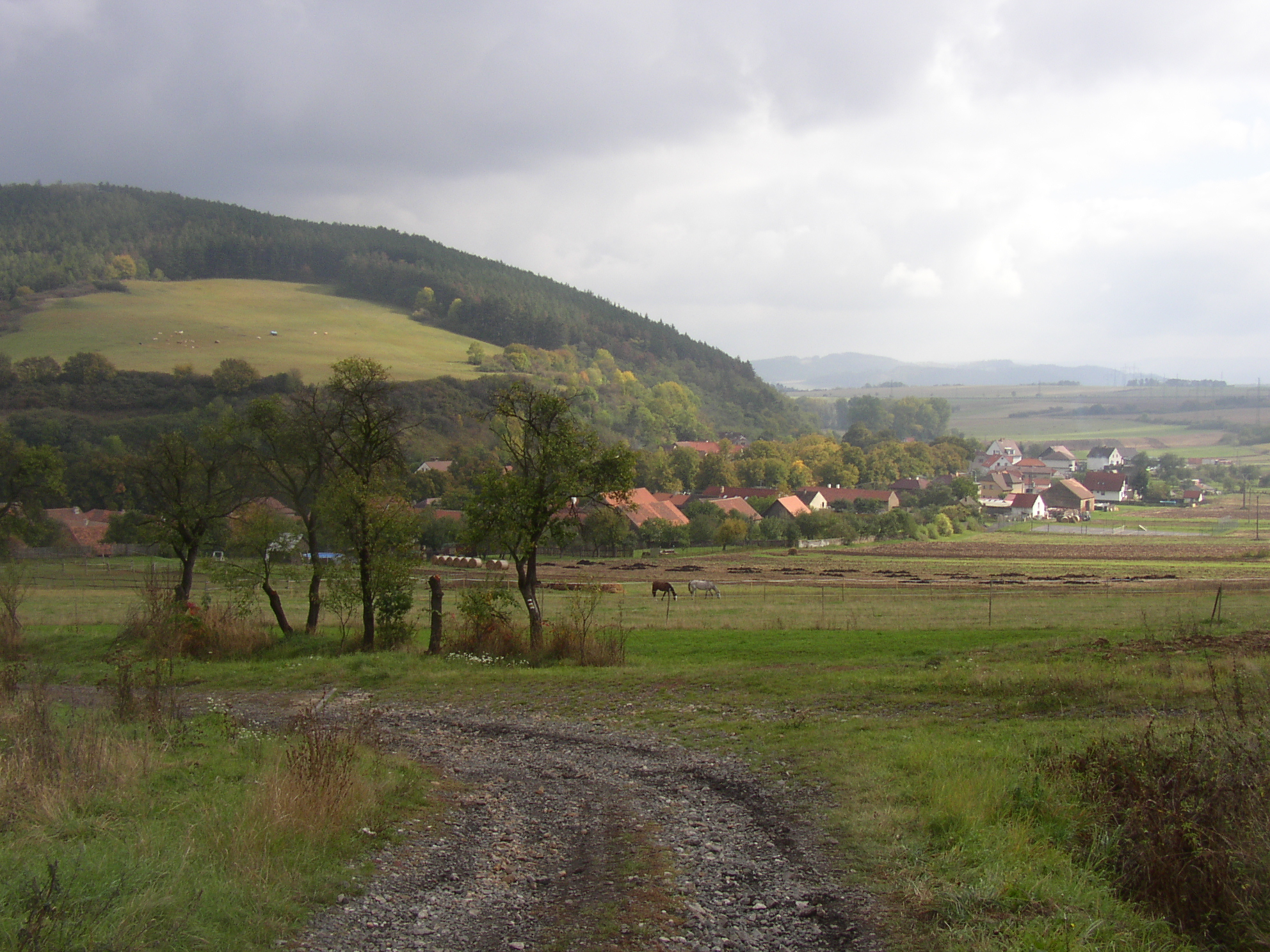 Hředle, Beroun District, Czech Republic. Lower (SE) part of the village as seen from the west. In the left background hill of Homole (426 m).